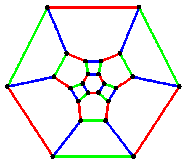 Schlegel diagram